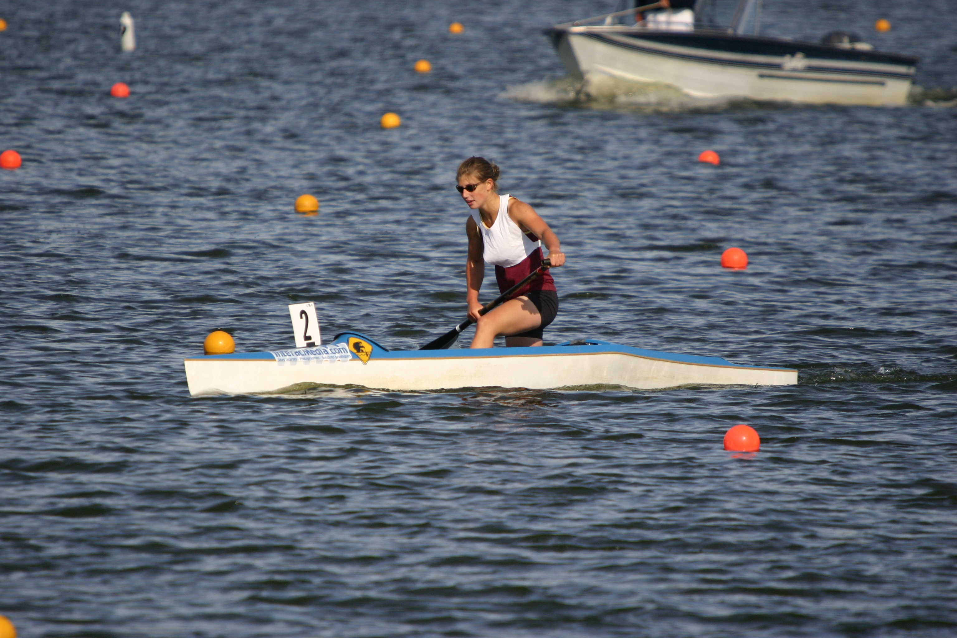 Sprint canoeing, c-1